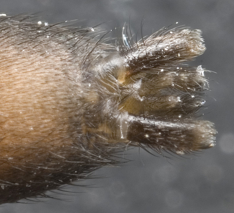 Spinnerets of female Eastern Parson Spider (Herpyllus ecclesiasticus) in the Gnaphosidae family